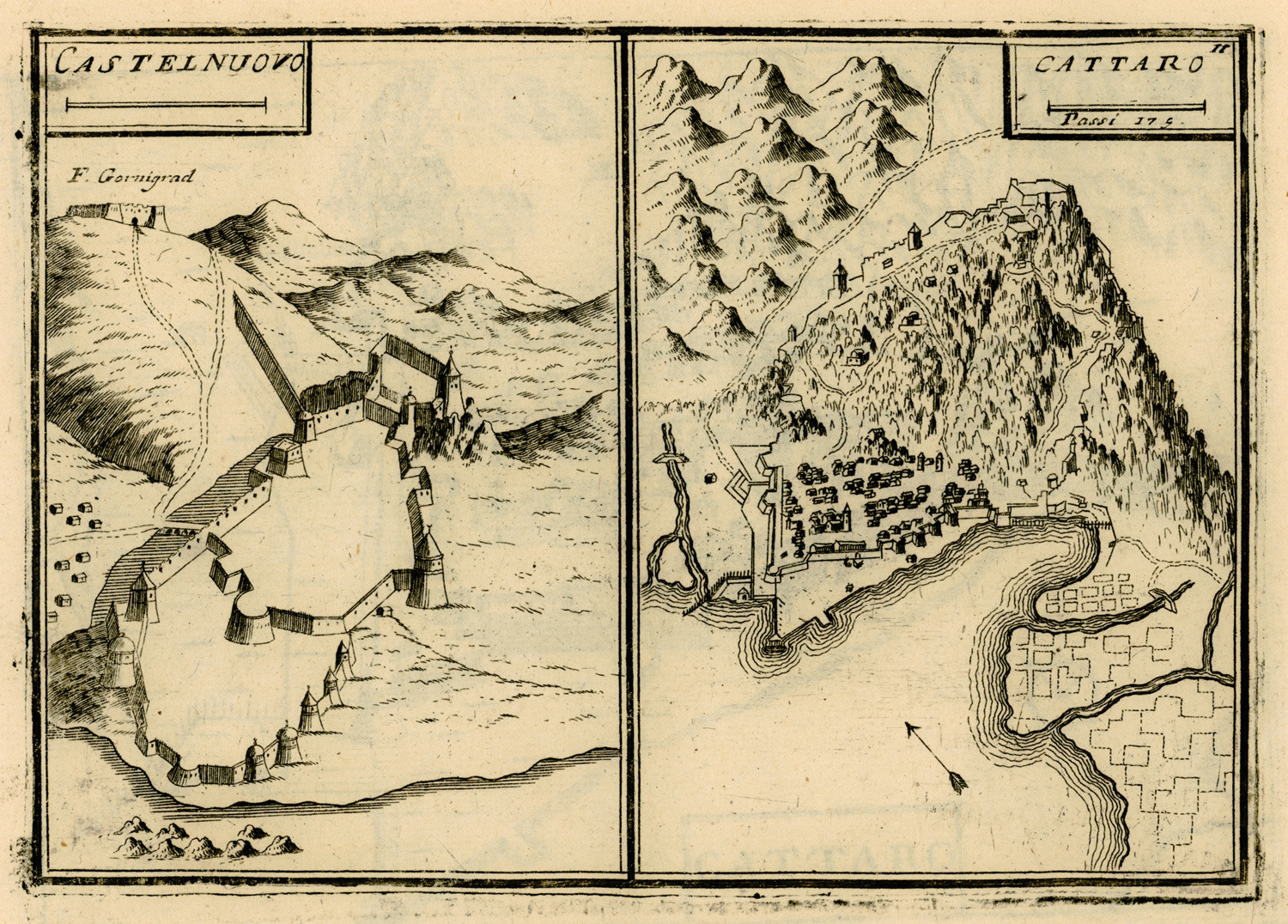 Vincenzo Coronelli - Repubblica di Venezia p. IV. Citta, Fortezze, ed altri Luoghi principali dell' Albania, Epiro e Livadia, e particolarmente i posseduti da Veneti descritti e delineati dal p. Coronelli, Venice, 1688.